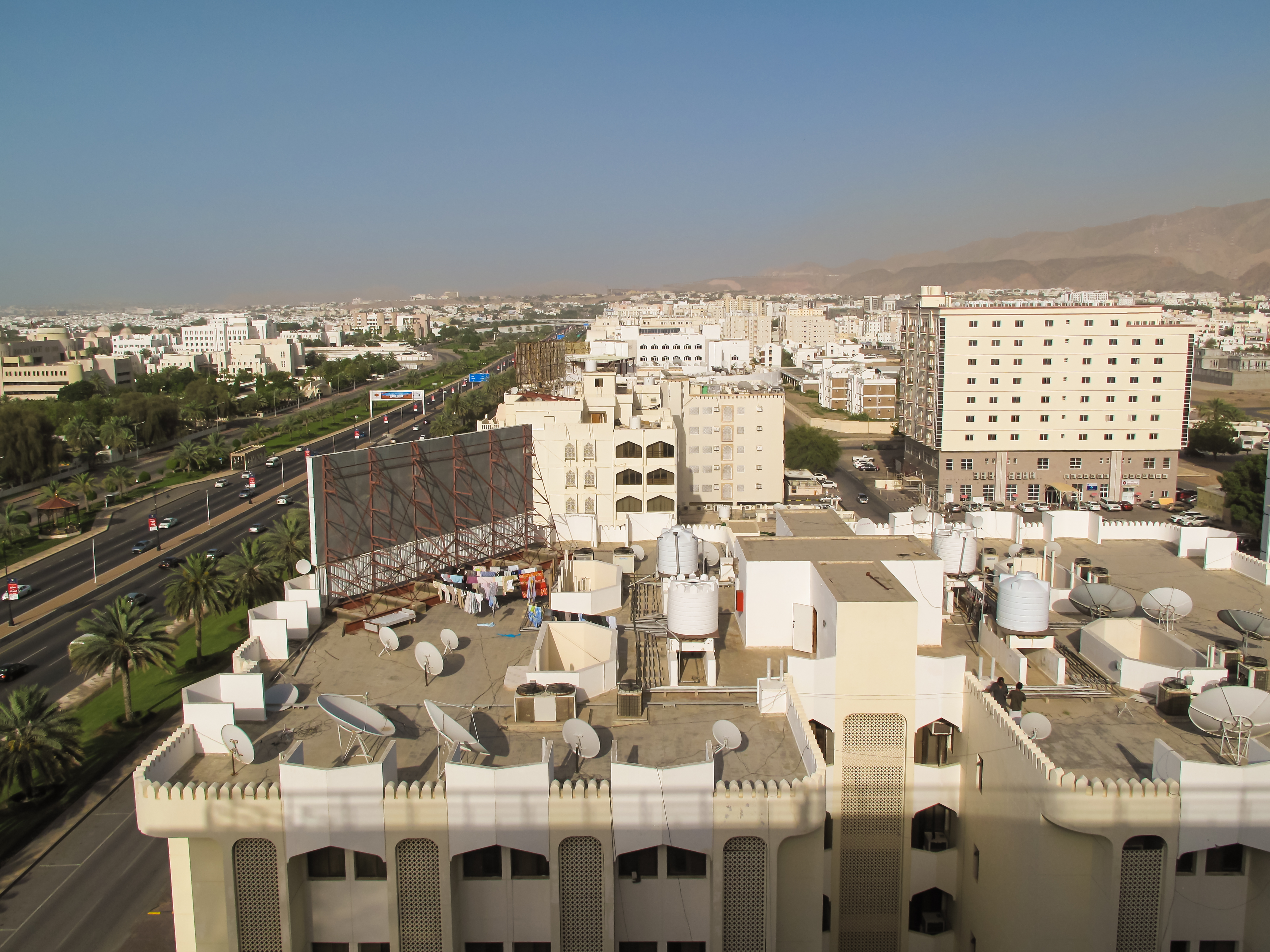 Muscat's western suburbs